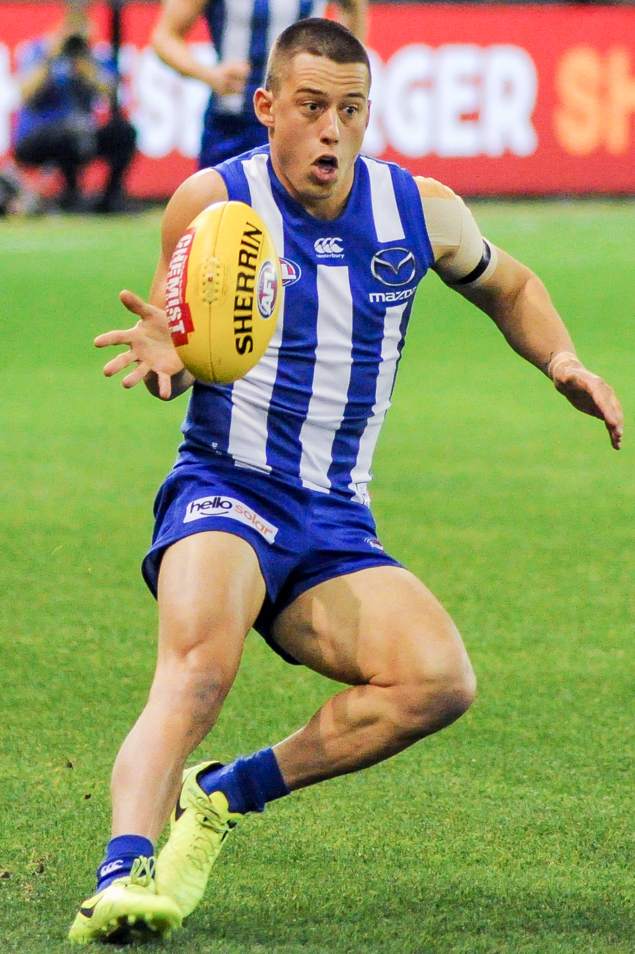 Nathan Hrovat during the AFL round thirteen match between North Melbourne and St Kilda on 16 June 2017 at Etihad Stadium in Melbourne, Victoria.